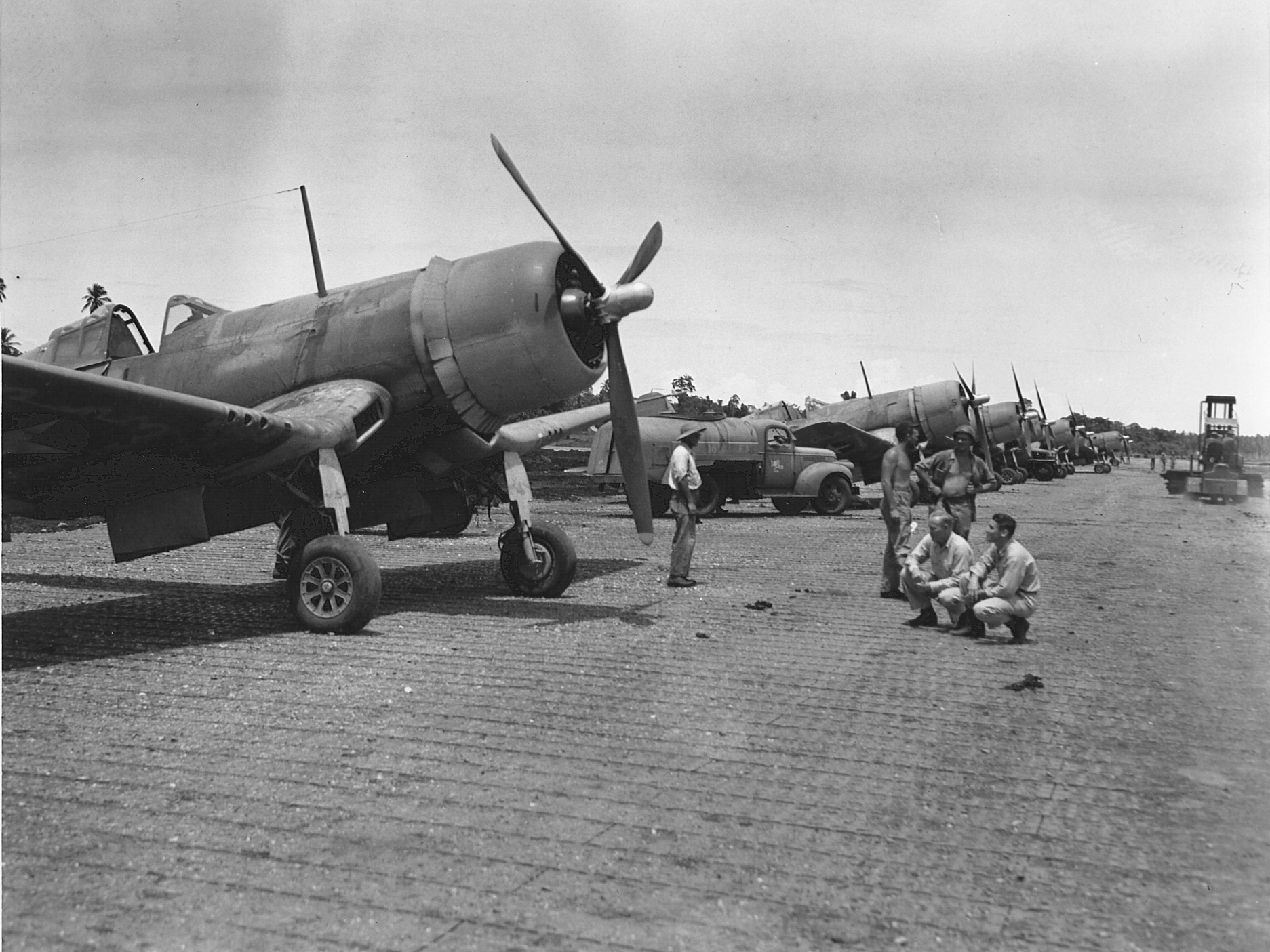 U.S. Marine Corps Vought F4U-1 Corsair fighters of Marine Fighting Squadron VMF-124 Whistling Death on Guadalcanal, in April 1943. VMF-124 was the first Corsair unit to enter combat, in February 1943.